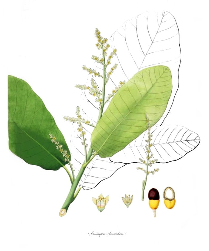 Illustration of Semecarpus anacardium